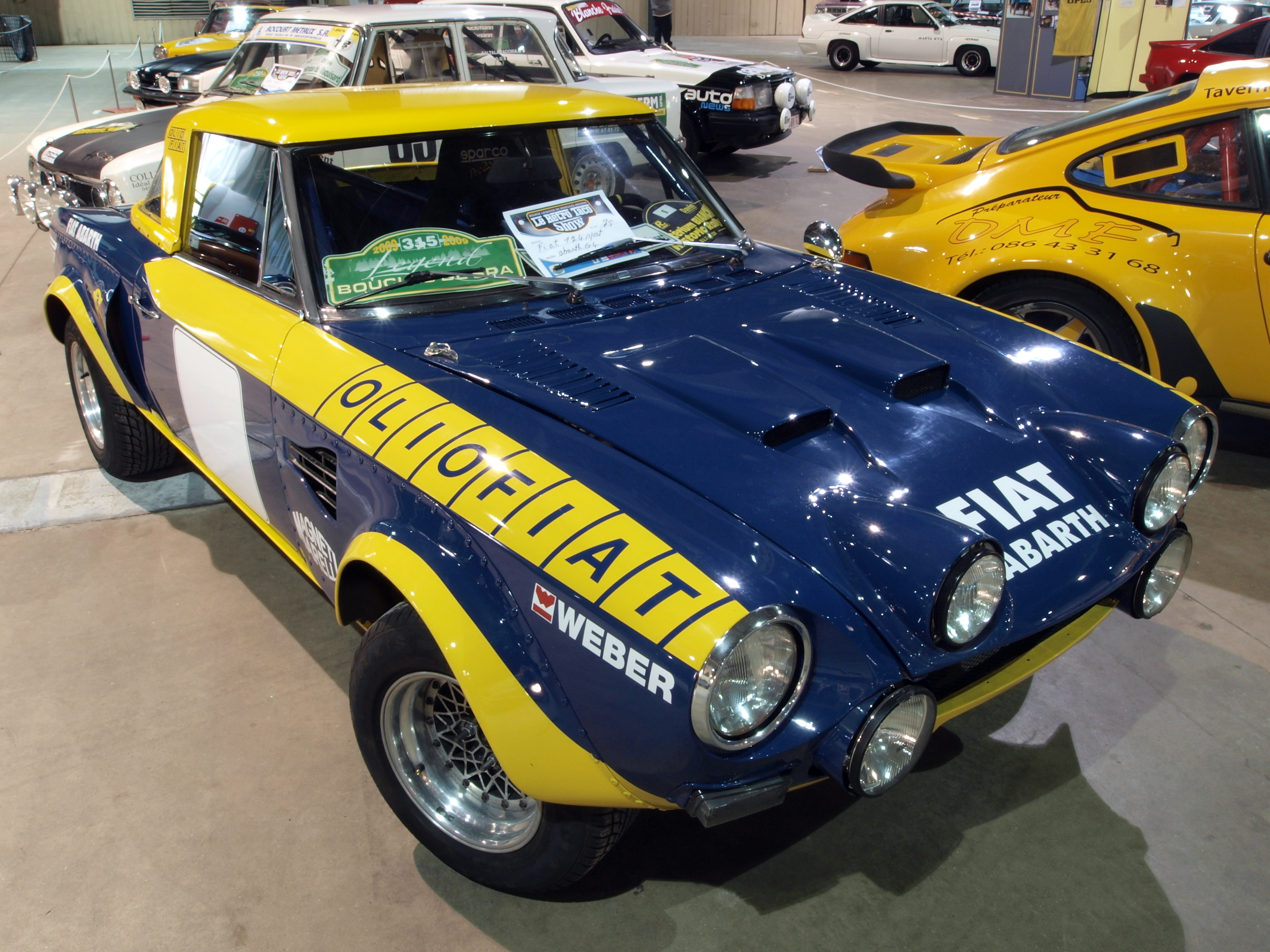 Fiat 124 sport Abarth G4 (1975)